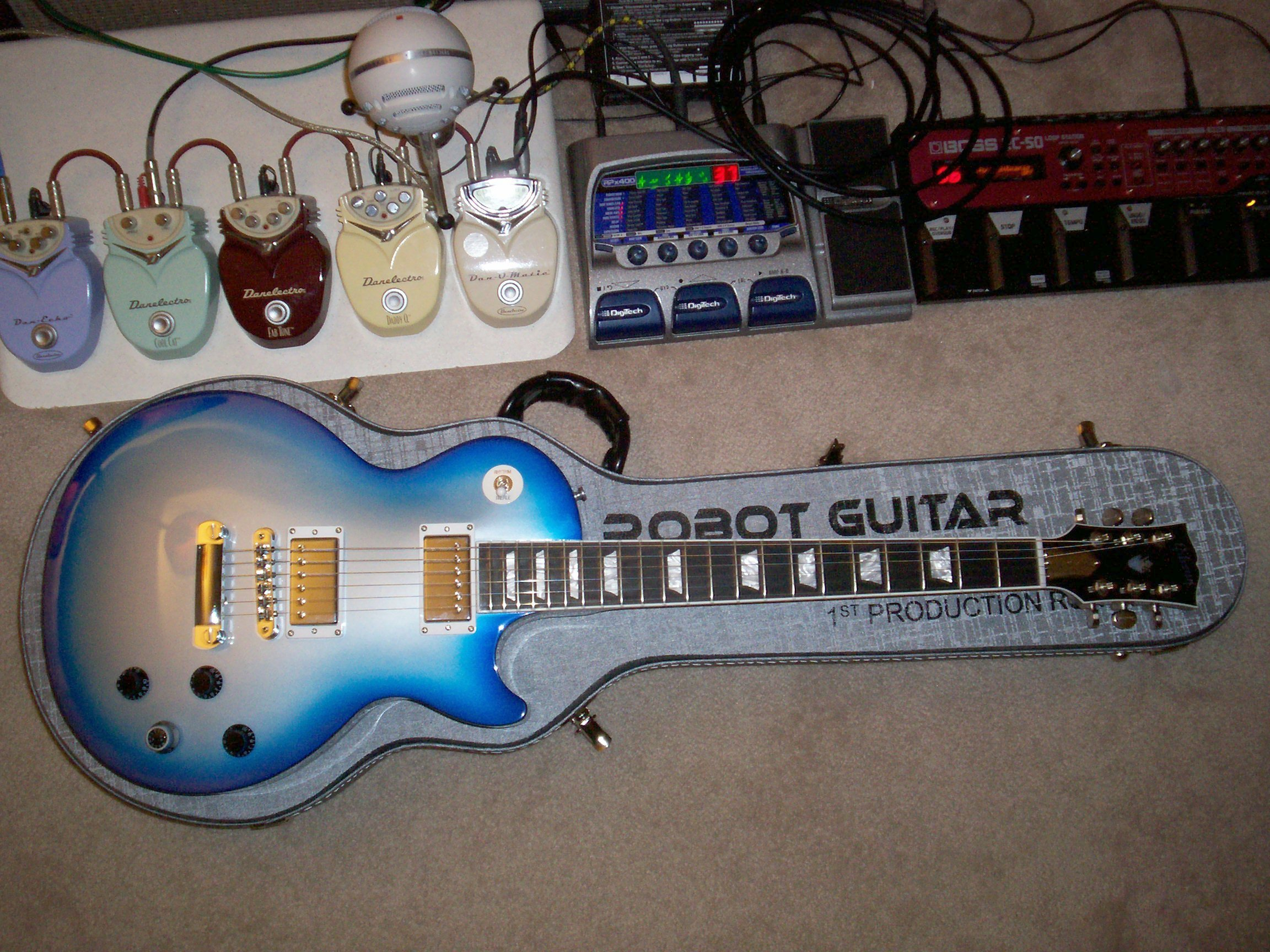 A first production run Gibson Robot Guitar resting atop its hardshell case, with assorted guitar effect pedals.